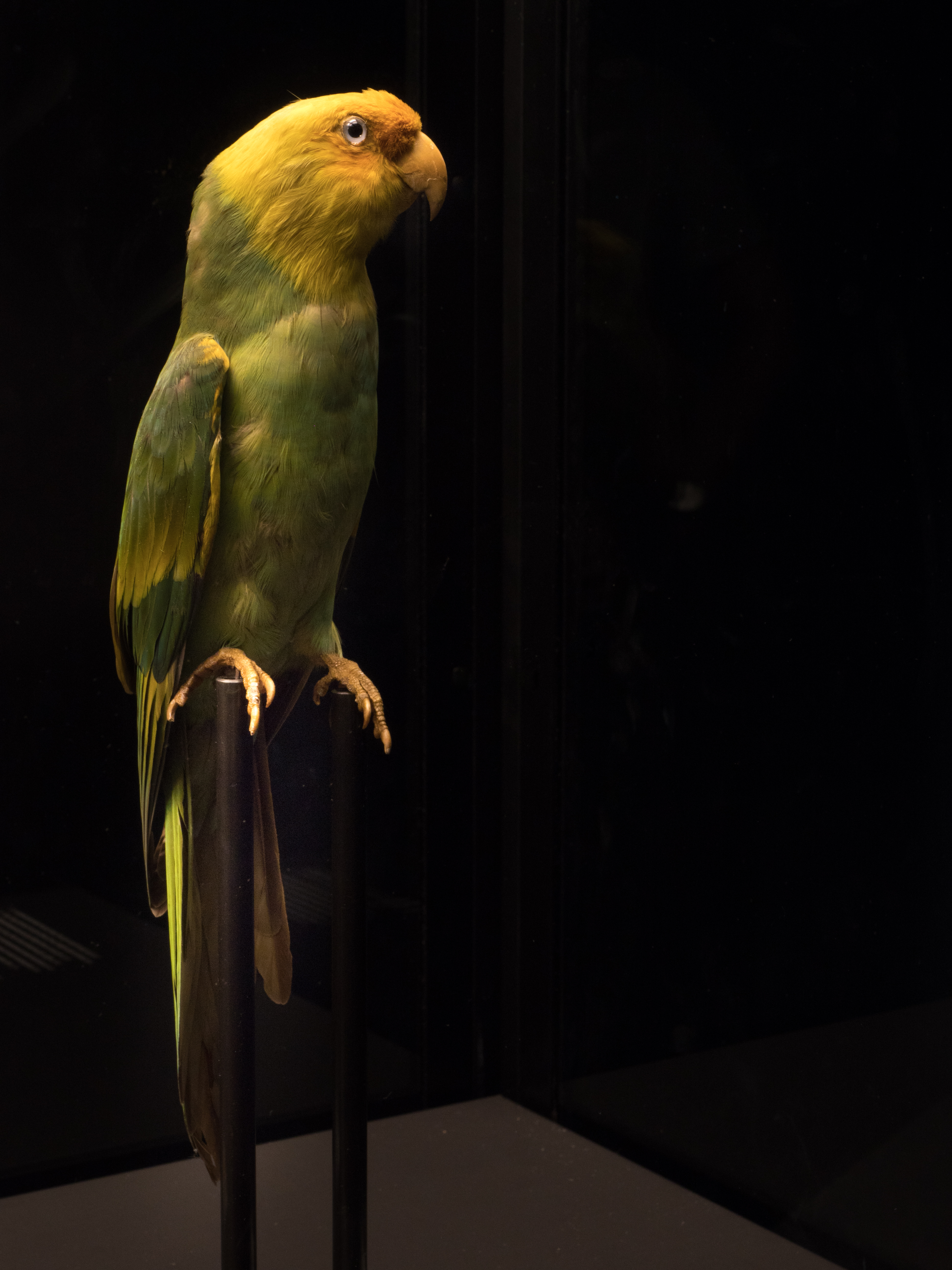 Perruche de la Caroline-Conuropsis carolinensis